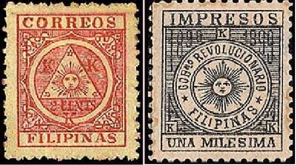 First stamps of post-colonial Philippines; 1898-99.